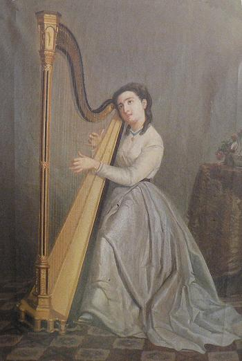 Francesc Miralles